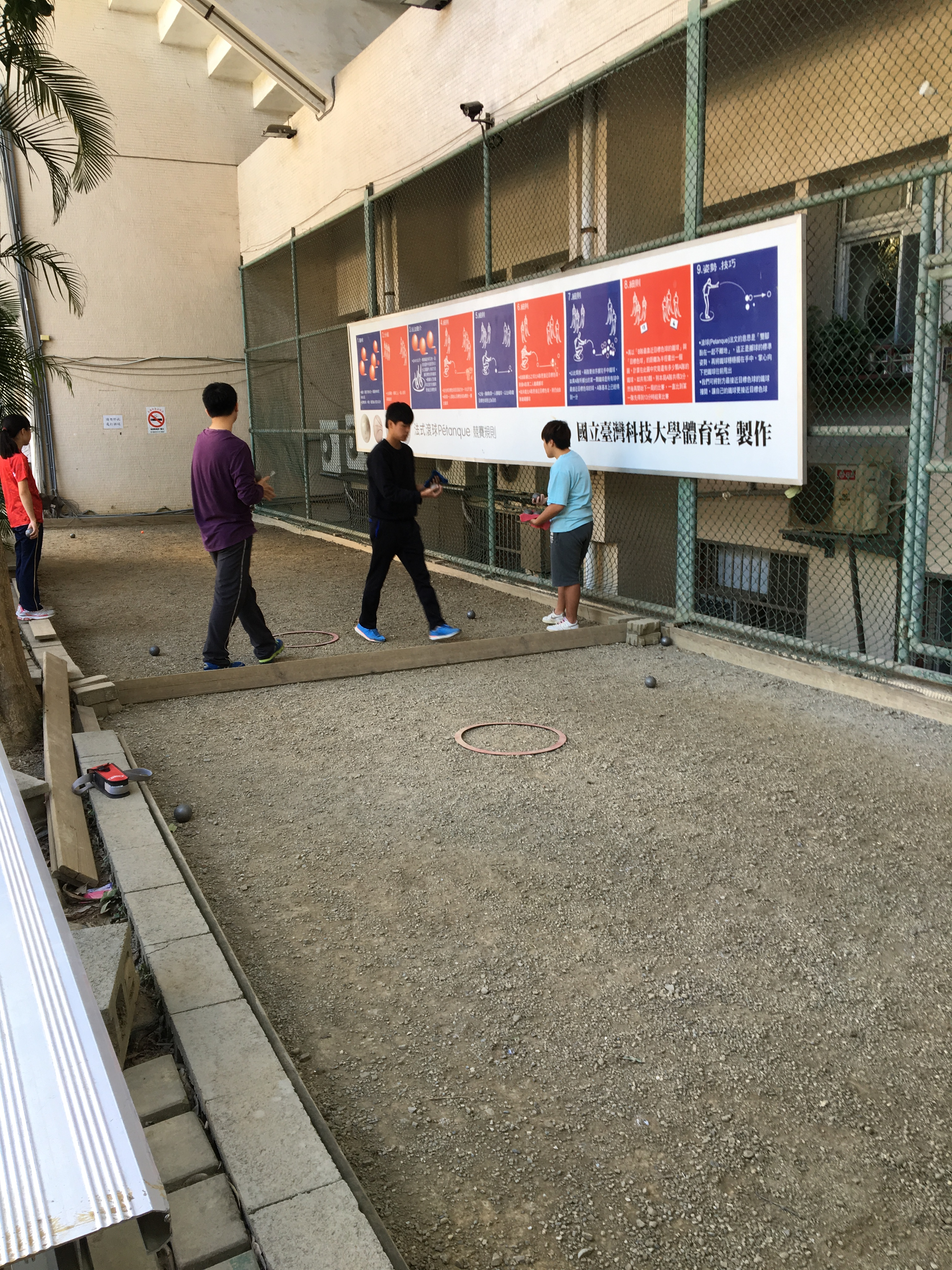 NTUST Pétanque Varsity